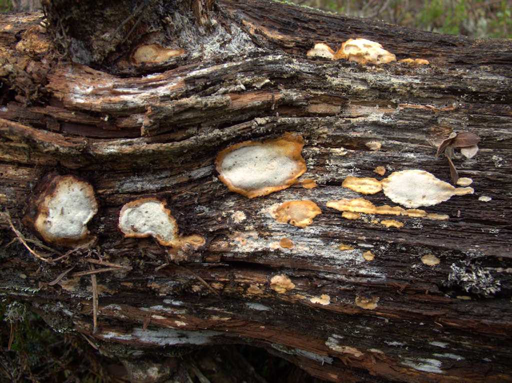 fruiting bodies in fresh state